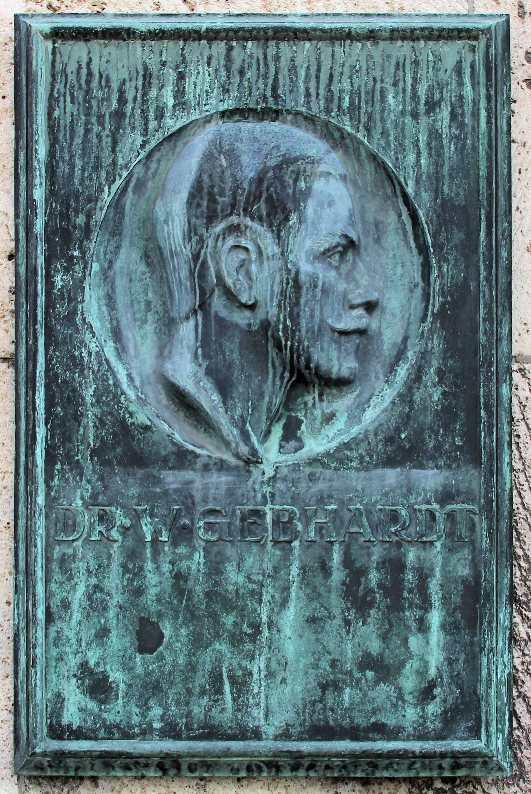 Memorial plaque, Willibald Gebhardt, Olympischer Platz 4, Berlin-Westend, Germany Koordinate:52°30′54″N 13°14′34″E / 52.515°N 13.24278°E